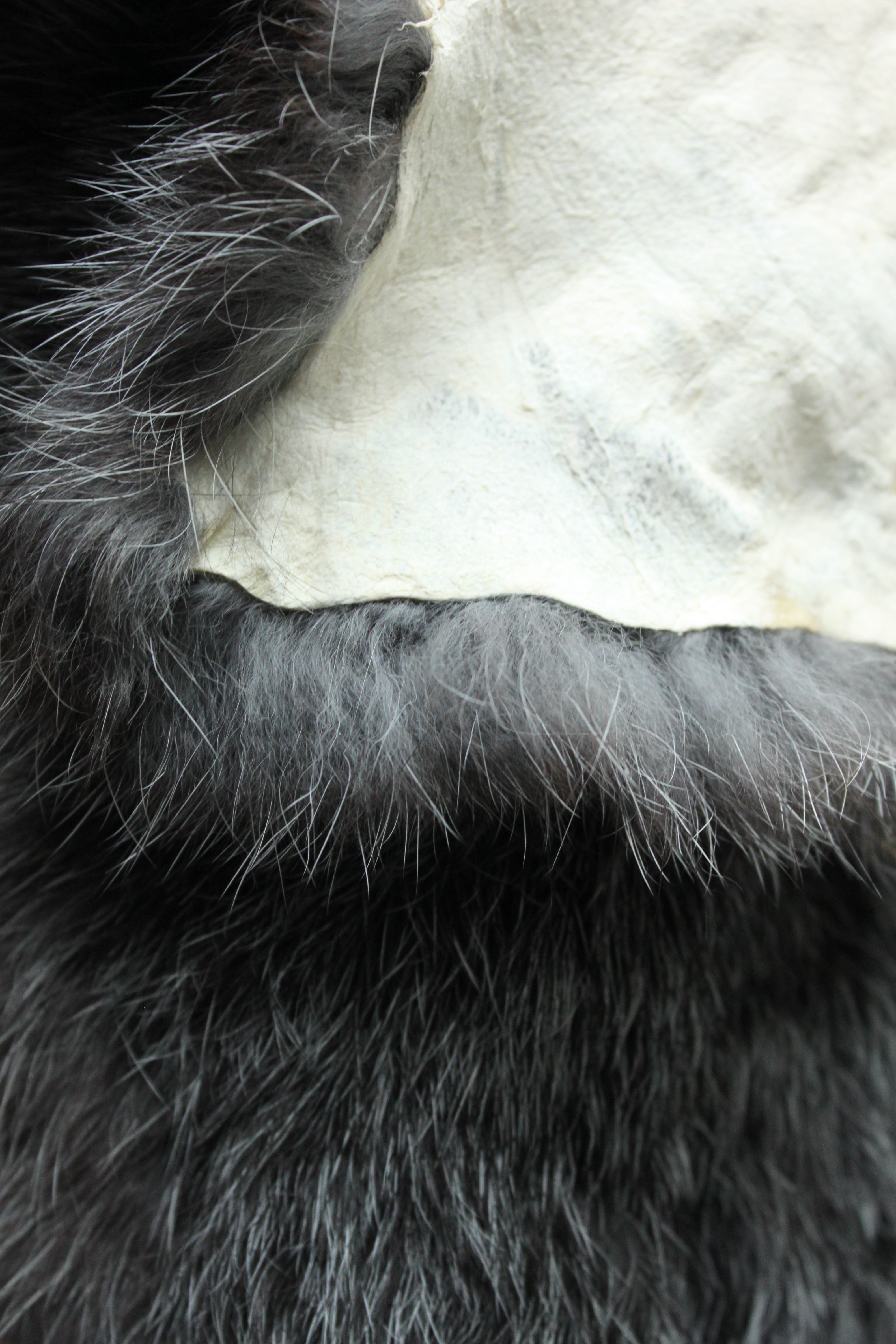 Rabbit fur clearly showing the different types of hair. This particular fur was obtained at a 'viking fair' at the historical museum Archeon in the Netherlands. All parts of the rabbit were put to use. It is not the result of fur-farming.